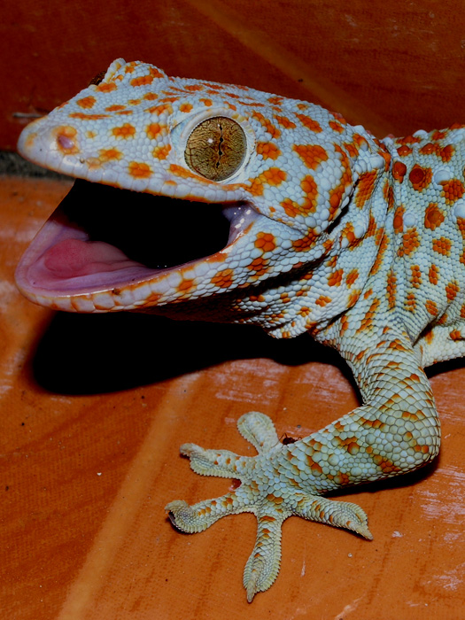 Tokay Gecko. From Dare East Timor. Often heard at dusk calling "Toh - Keh"